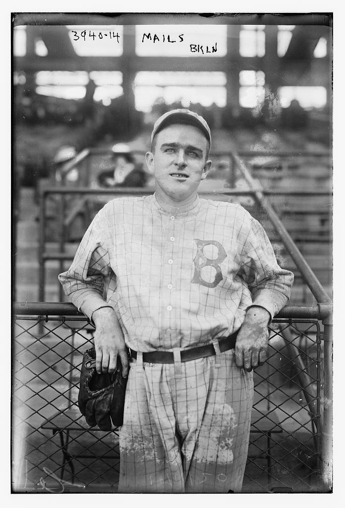 Bain News Service,, publisher. [John W. "Duster" Mails, Brooklyn NL (baseball)] [1916] 1 negative : glass ; 5 x 7 in. or smaller. Notes: Original data provided by the Bain News Service on the negatives or caption cards: Mails, Bklyn. Corrected title and date based on research by the Pictorial History Committee, Society for American Baseball Research, 2006. Forms part of: George Grantham Bain Collection (Library of Congress). Format: Glass negatives. Repository: Library of Congress, Prints and Photographs Division, Washington, D.C. 20540 USA, General information about the Bain Collection is available at Higher resolution image is available (Persistent URL): Call Number: LC-B2- 3940-14